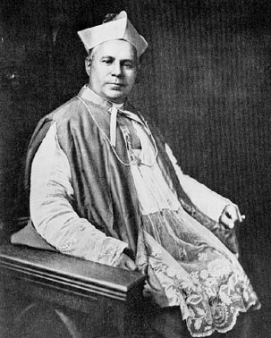 Émile-Joseph Legal File number: NA-3643-1